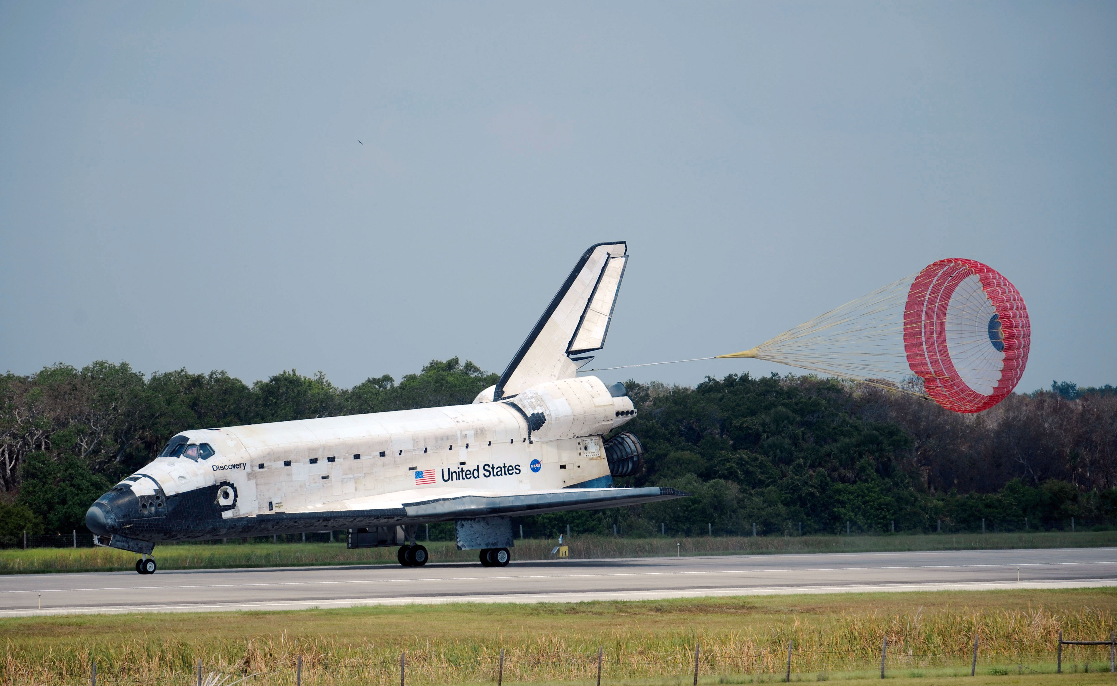 Space Shuttle Discovery's drag chute is deployed as the spacecraft rolls toward wheels stop on runway 15 of the Shuttle Landing Facility at NASA's Kennedy Space Center, concluding the 14-day STS-124 mission to the International Space Station. Onboard are NASA astronauts Mark Kelly, commander; Ken Ham, pilot; Mike Fossum, Ron Garan, Karen Nyberg, Garrett Reisman and Japan Aerospace Exploration Agency astronaut Akihiko Hoshide, all mission specialists. The main landing gear touched down at 11:15:19 a.m. (EDT) on June 14, 2008. The nose landing gear touched down at 11:15:30 a.m. and wheel stop was at 11:16:19 a.m. During the mission, Discovery's crew installed the Japan Aerospace Exploration Agency's large Kibo laboratory and its remote manipulator system leaving a larger space station and one with increased science capabilities.